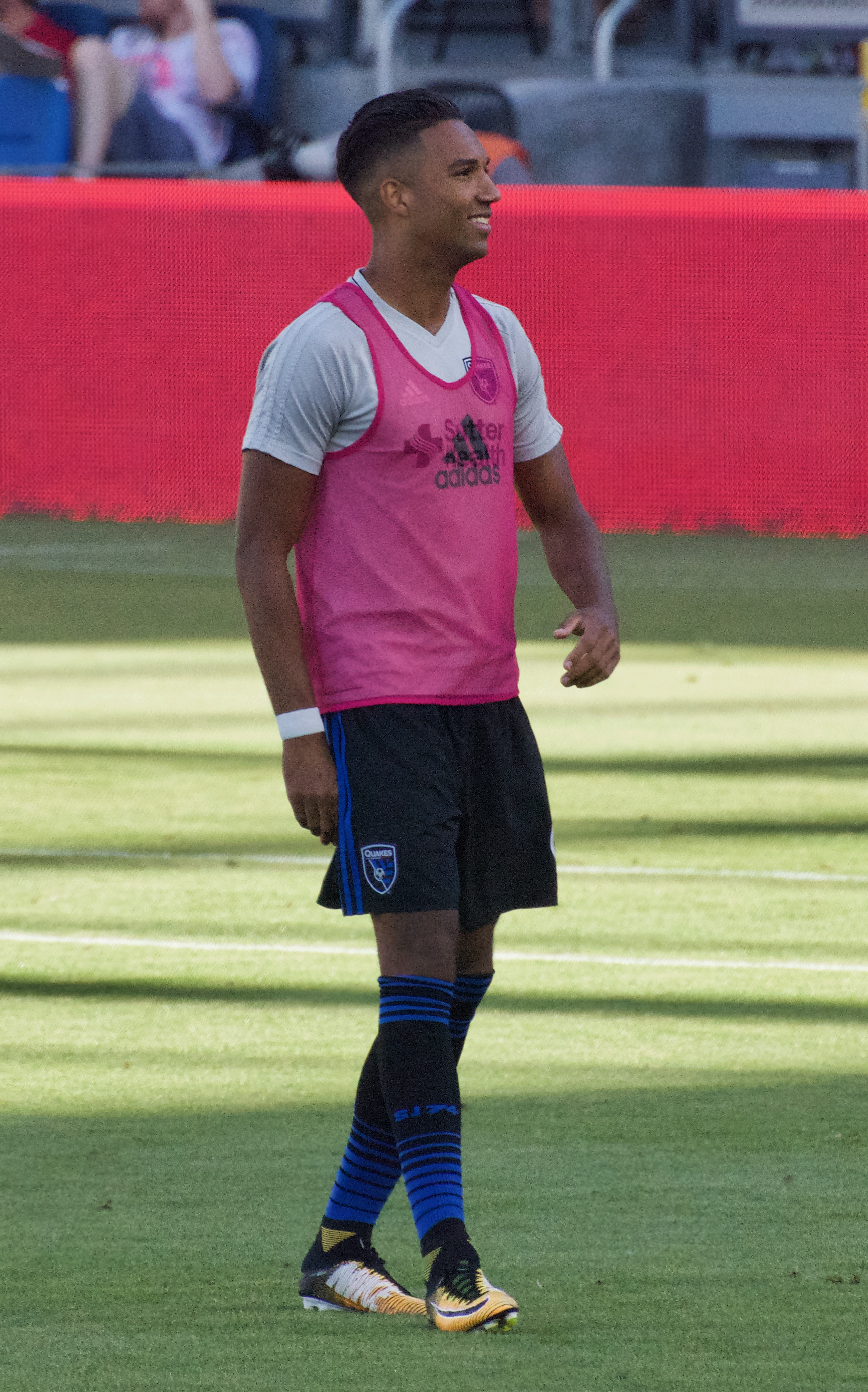 Danny Hoesen of the San Jose Earthquakes warms up at halftime. Avaya Stadium, 29 July 2017